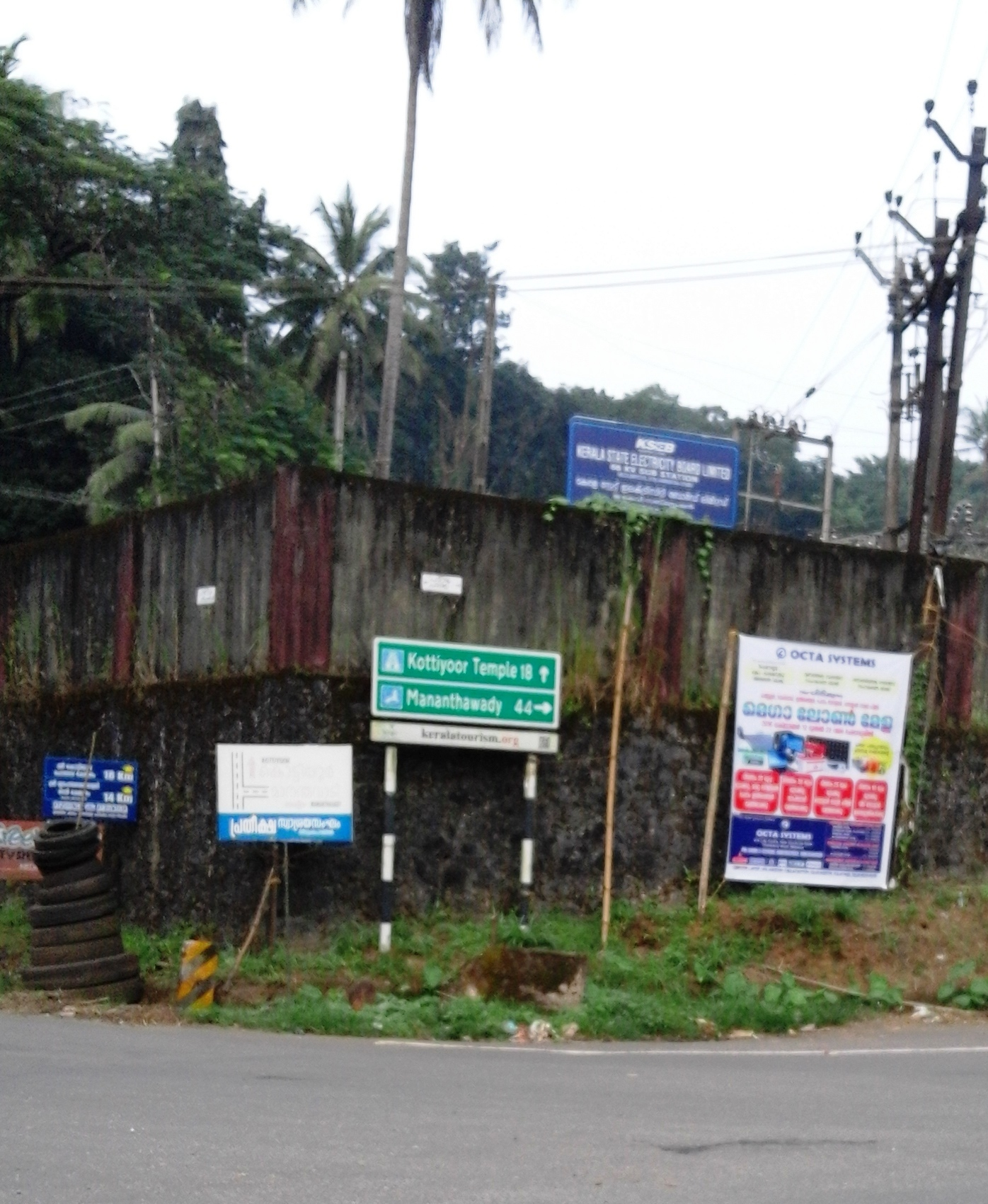 This junction connects Wayanad district with various roads in Kannur district, Kerala state, India.